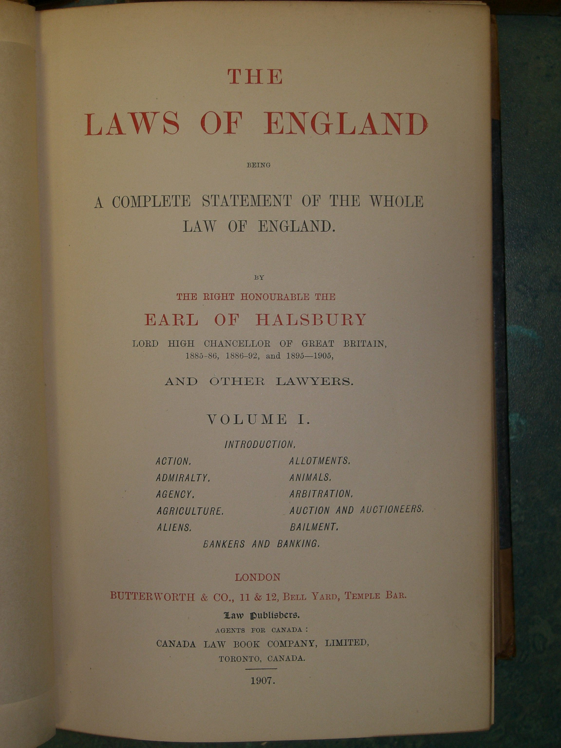 Halsbury's Laws of England, 1st ed, copyright/title page